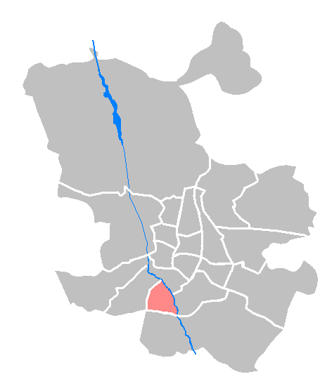 Locator maps of districts in Madrid: Maps - ES - Madrid - Usera.PNG